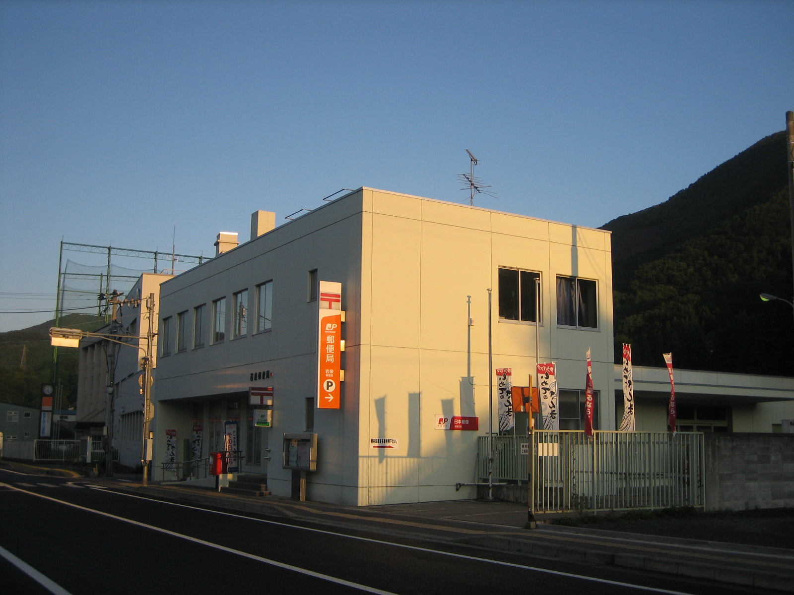 Iwaizumi post office in Iwate, Japan